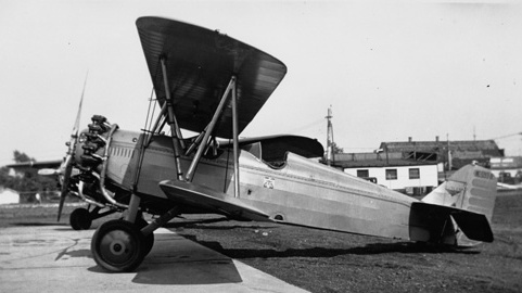 Catalog #: 00062785 Manufacturer: Butler Designation: Blackhawk Official Nickname: Notes: Repository: San Diego Air and Space Museum Archive